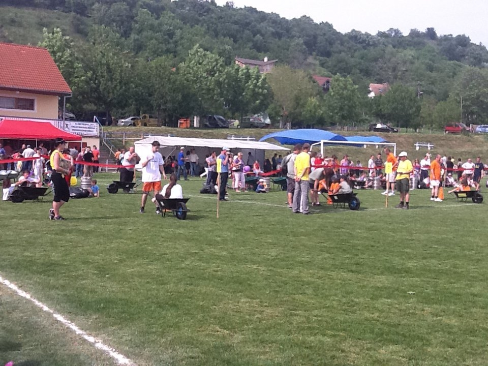 Girls have taken their place in the wheelbarrows as teams prepare for the race at the 11. Wheelbarrow Olympics in 2011 in Hosszúhetény, southern Hungary